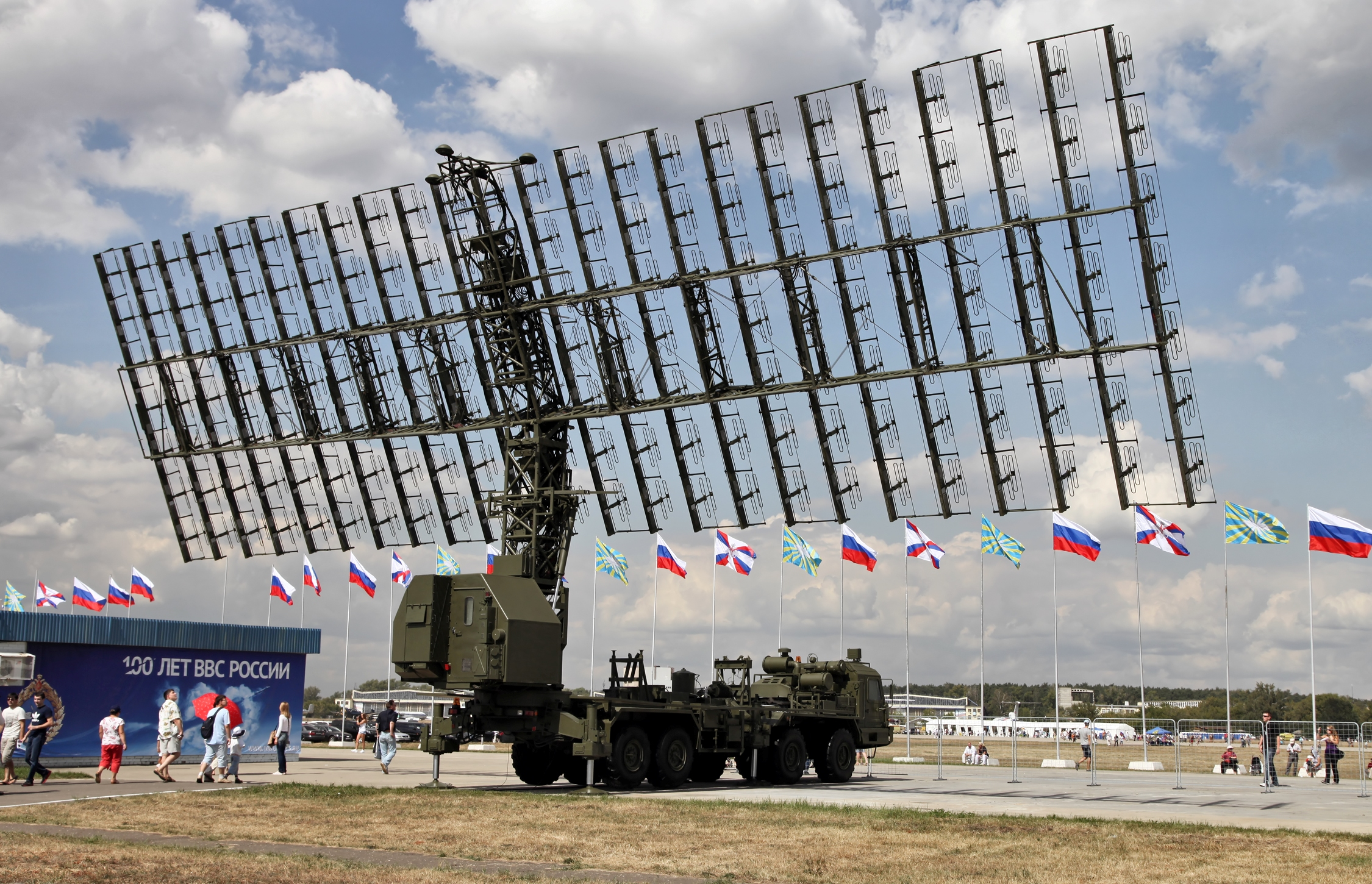 100th Anniversary of the Russian Air Force - Air defence systems of Russian original are shown.